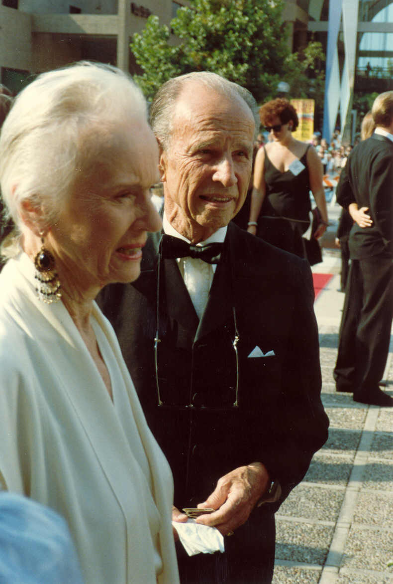 Photo taken at the 40th Emmy Awards, August 1988